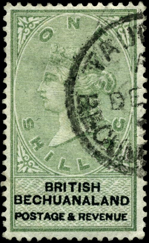 British Bechuanaland 1-shilling stamp of 1888